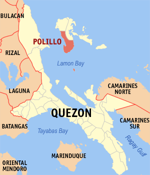 Map of Quezon showing the location of Polillo